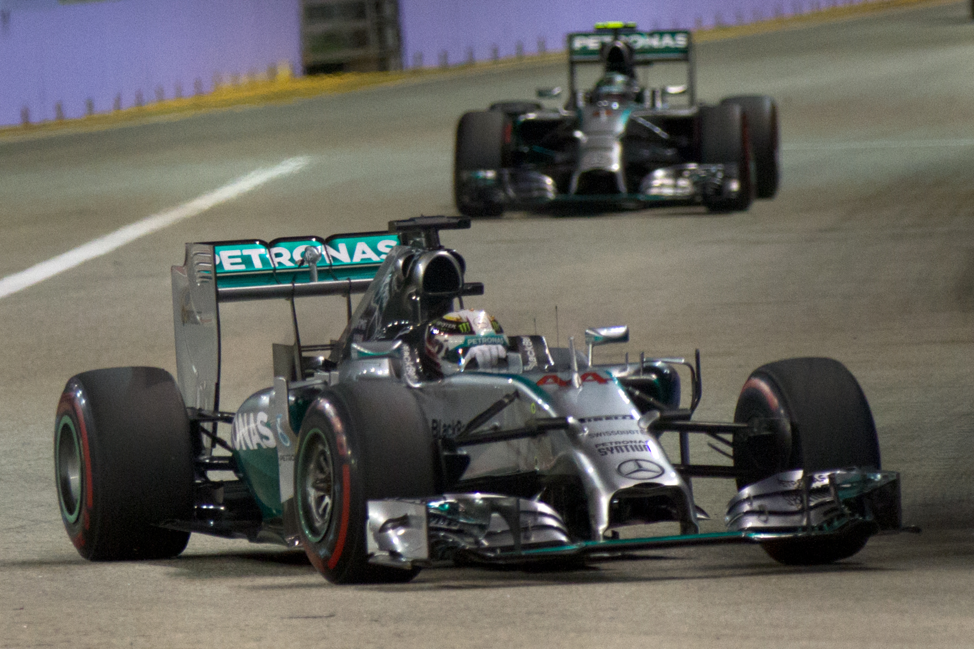 Formula One 2014 Rd.14 Singapore GP: Lewis Hamilton (Mercedes GP)